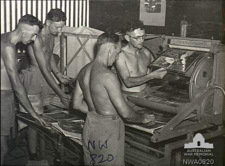 AWM caption : Coomalie Creek, NT. 1945-03-21. Members of the Photographic Reconnaissance Flight putting prints through modern print drying and Velox glazing machines at No. 87 Squadron RAAF in North Western Australia. Left to right: 142433 Leading Aircraftman (LAC) Reg Duncan of Kew, Vic 67321 LAC Don Turner of Mosman, NSW 75777 LAC W. Smith of Dutton Park, Qld 82341 LAC K. Ottaway of North Perth, WA